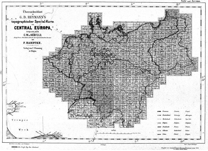 Index sheet for Reymann's Special-Karte - XIX century maps set, covering Central Europe